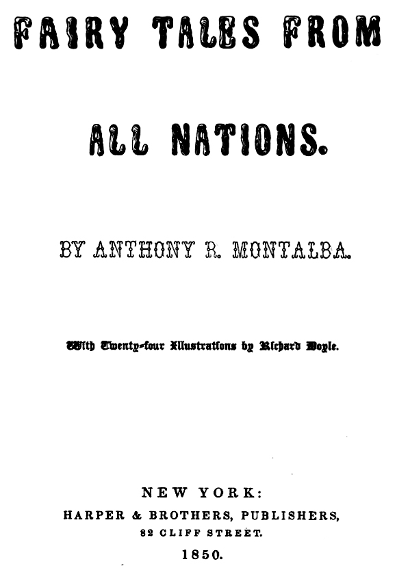 Front Piece of FairyTales of All Nations by Anthony Montalba